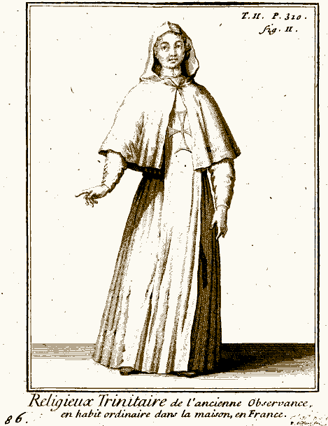 Trinitarian brother